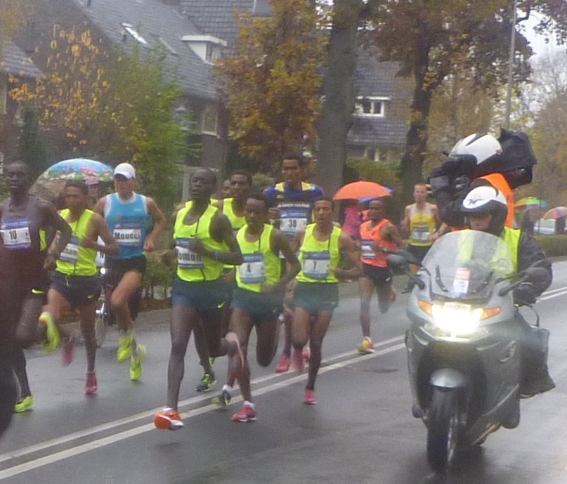 Leading group Zevenheuvelenloop 2014